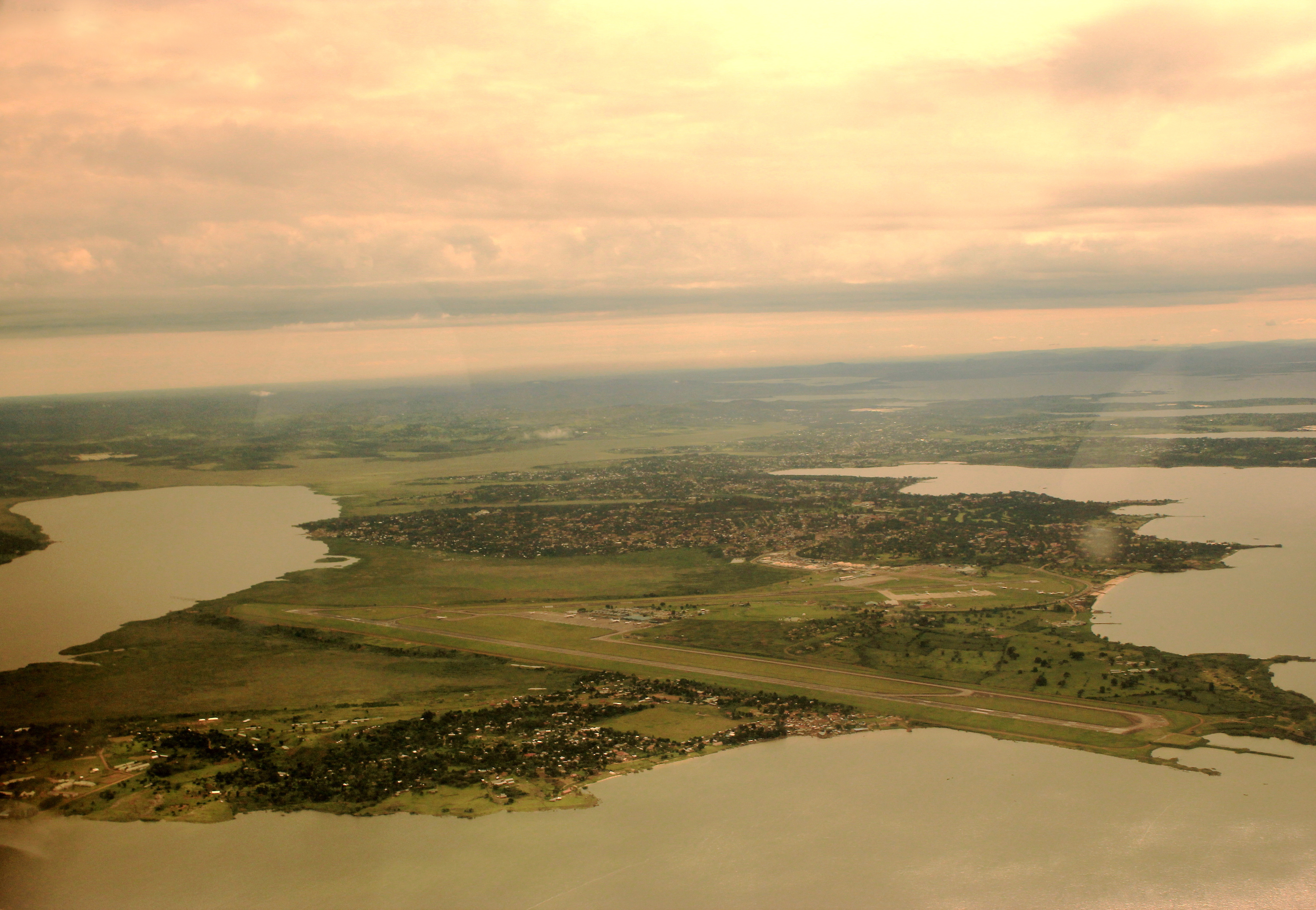 CityEntebbe situated along Lake Victoria, Uganda